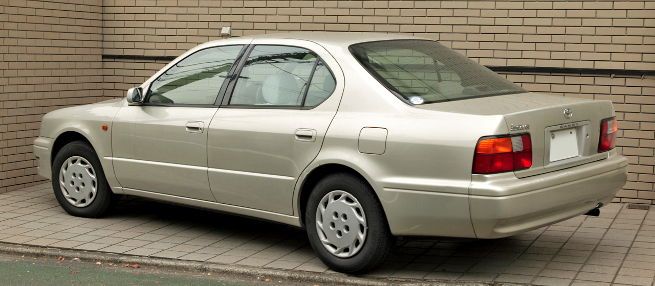 Toyota Camry sedan 2.0 Lumière G ( SV40 )